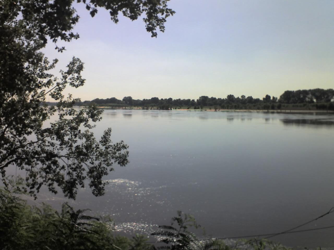 The Po River as seen from the bycicle touring course Destra Po in the province of Ferrara